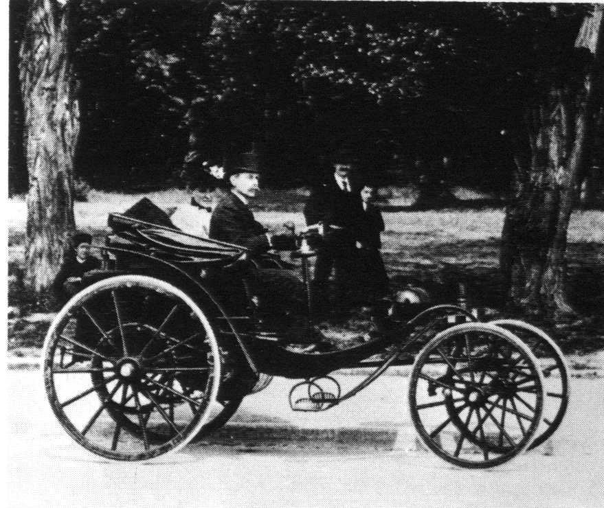 Voiture système Krebs at the Bois de Boulogne, Paris. Inventor Arthur Constantin Krebs at the steering lever.